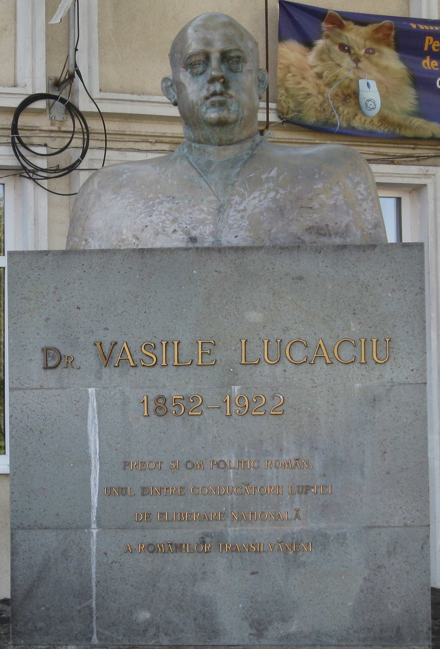 Bust of Vasile Lucaciu, Baia Mare, Romania. Inscription reads: "Romanian priest and politician. One of the leaders of the national liberation struggle of Transylvania's Romanians".